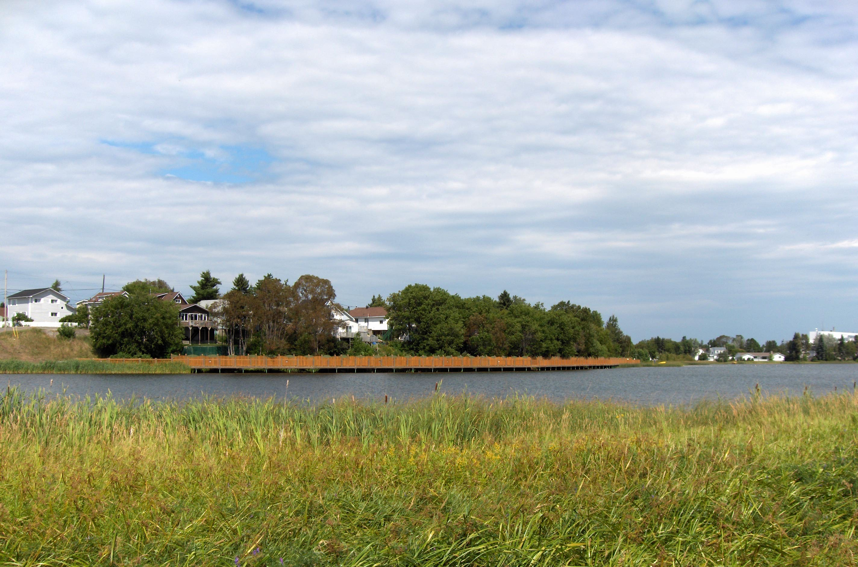 Gillies Lake Board Walk. Author: John Monaghan Source: HP Photosmart R717